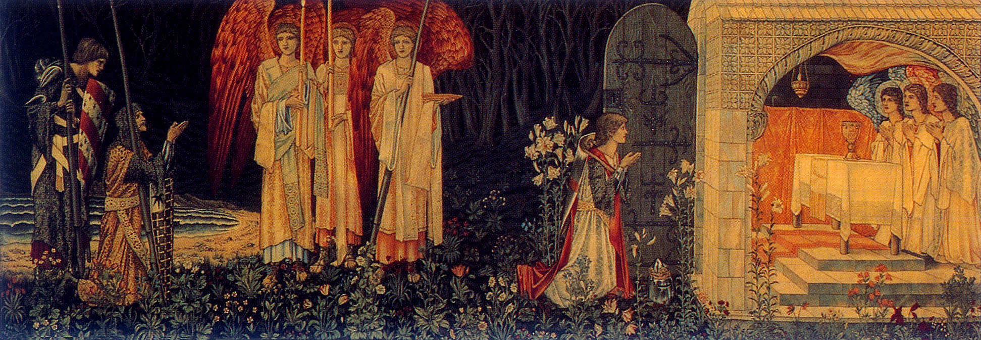 The Attainment: The Vision of the Holy Grail to Sir Galahad, Sir Bors, and Sir Perceval (also known as The Achievement of the Grail or The Achievement of Sir Galahad, accompanied by Sir Bors, and Sir Perceval).Number 6 of the Holy Grail tapestries woven by Morris & Co. 1891-94 for Stanmore Hall. This version woven by Morris & Co. for Lawrence Hodson of Compton Hall 1895-96. Wool and silk on cotton warp. Birmingham Museum and Art Gallery.